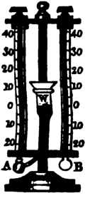 1861 diagram of a psychrometer with wet bulb (a) and dry bulb (b). The wet bulb is connected to a reservoir of water.